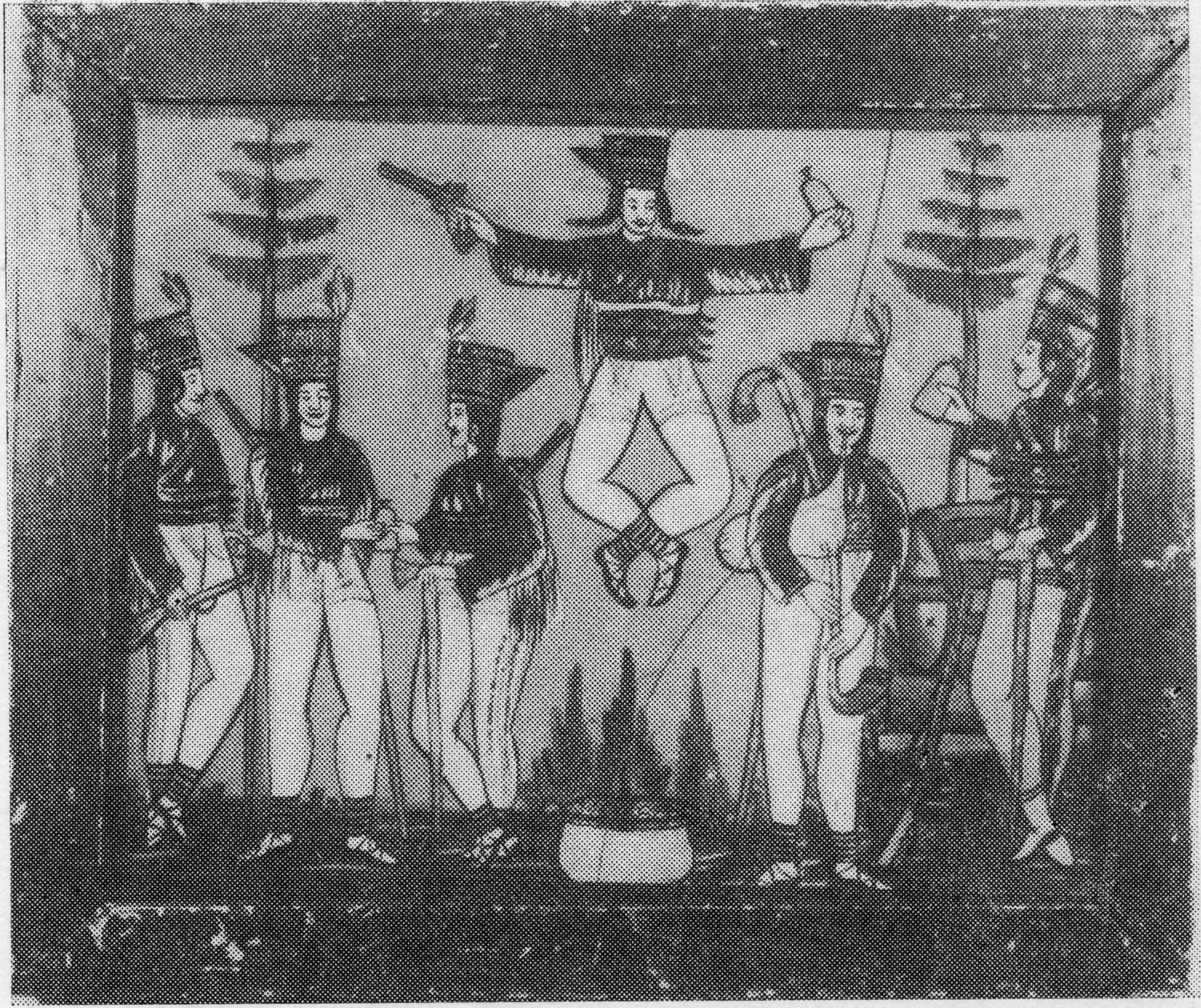 The motif known on Tatra Mountains foothills art as "Surowiec's acceptance". Glass painting, early XIX century, greyscale reprint. Jakub Surovec (in the middle, jumping) accepted into the Juraj Janosik's (first on the right) group. As a form of highwaymen exam, he cuts off one pinnacle of a mountain pine with a poleaxe, while shooting off the other one with a pistol. While such a scene never occurred, it is widespread in Goral legends. Zdzisław Piasecki mistakenly described the jumping person as Janosik.